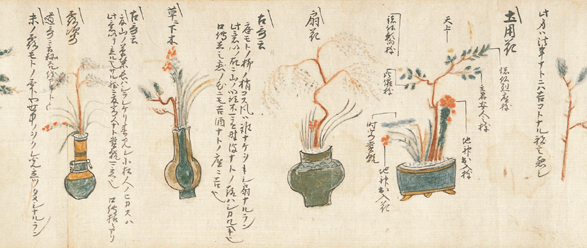 Illustration from the Kaō irai no Kadensho, believed to be the oldest extant manuscript of ikebana teaching, dating from a time shortly after that of Ikenobō Senkei. It shows various arranging styles of tatehana, kakebana (hung on a tokonoma post or wall) and tsuribana (hanging arrangements).